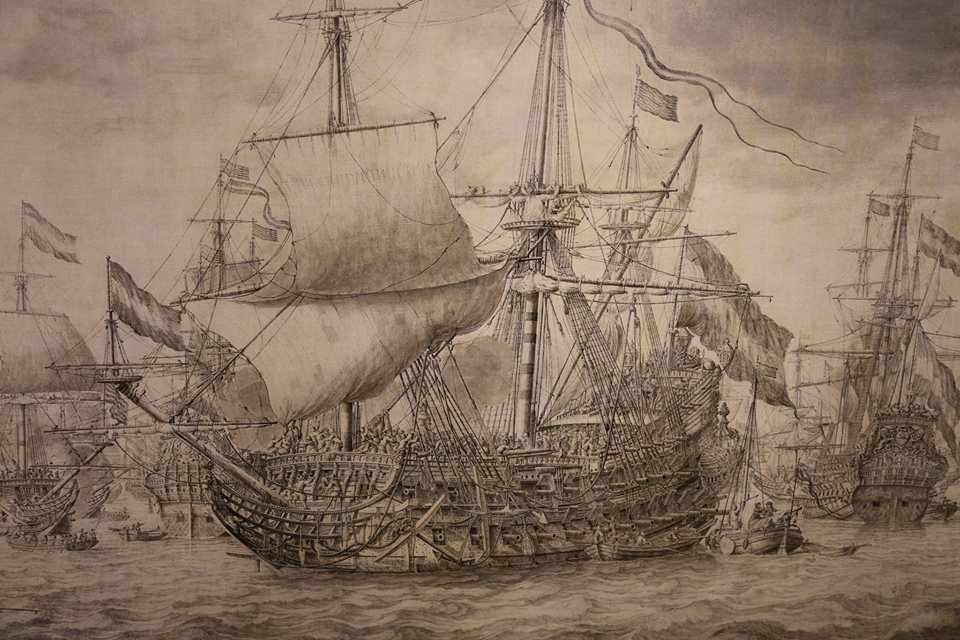 Portrait of Dutch ship Eendracht, on display at Maritiem Museum Rotterdam.